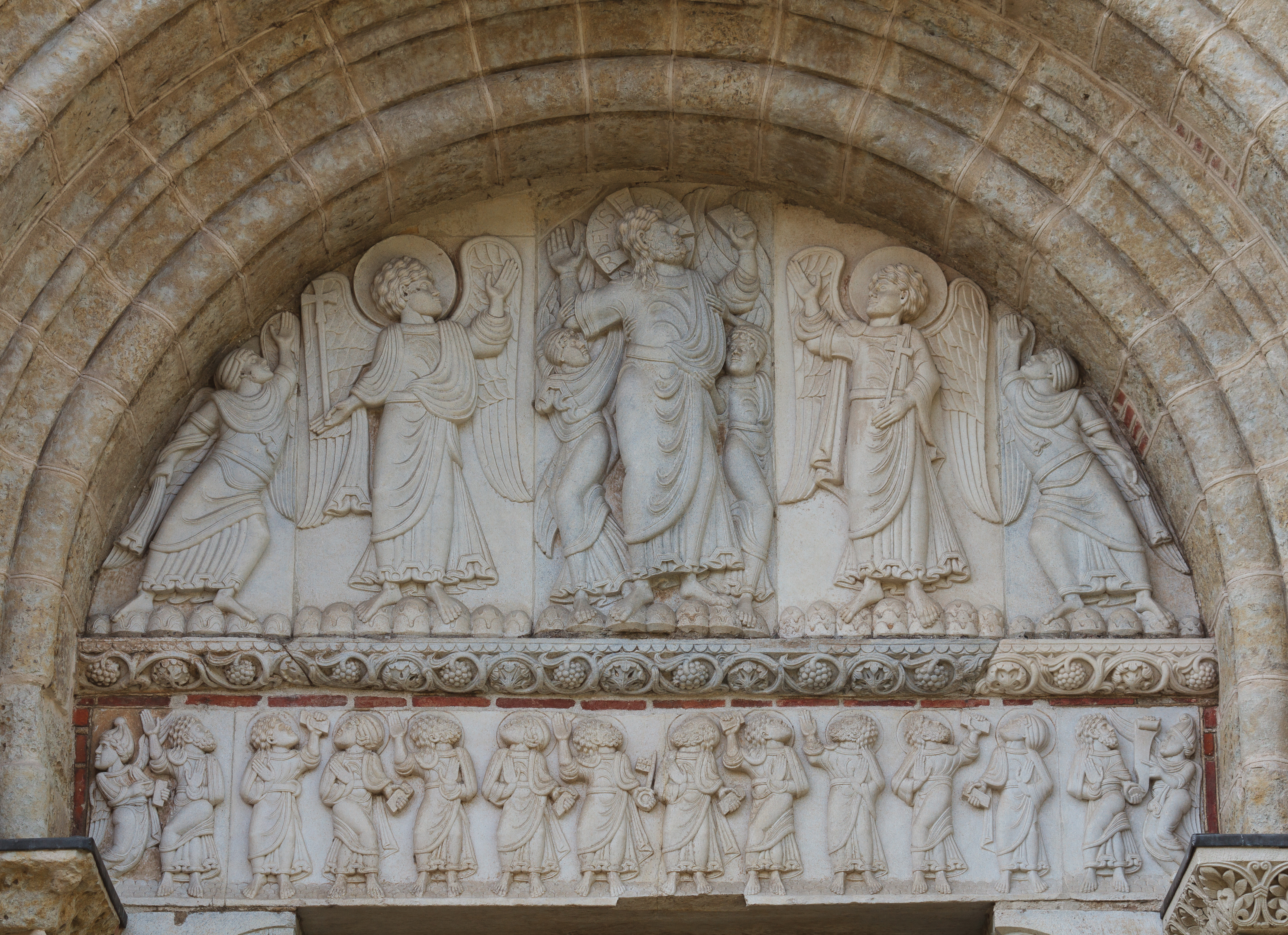 Tympanum of Miègeville's gate in Basilica St. Sernin in Toulouse: The tympanum represents the ascension of Jesus Christ The impost represents grapevine The lintel represents the Twelve Apostles